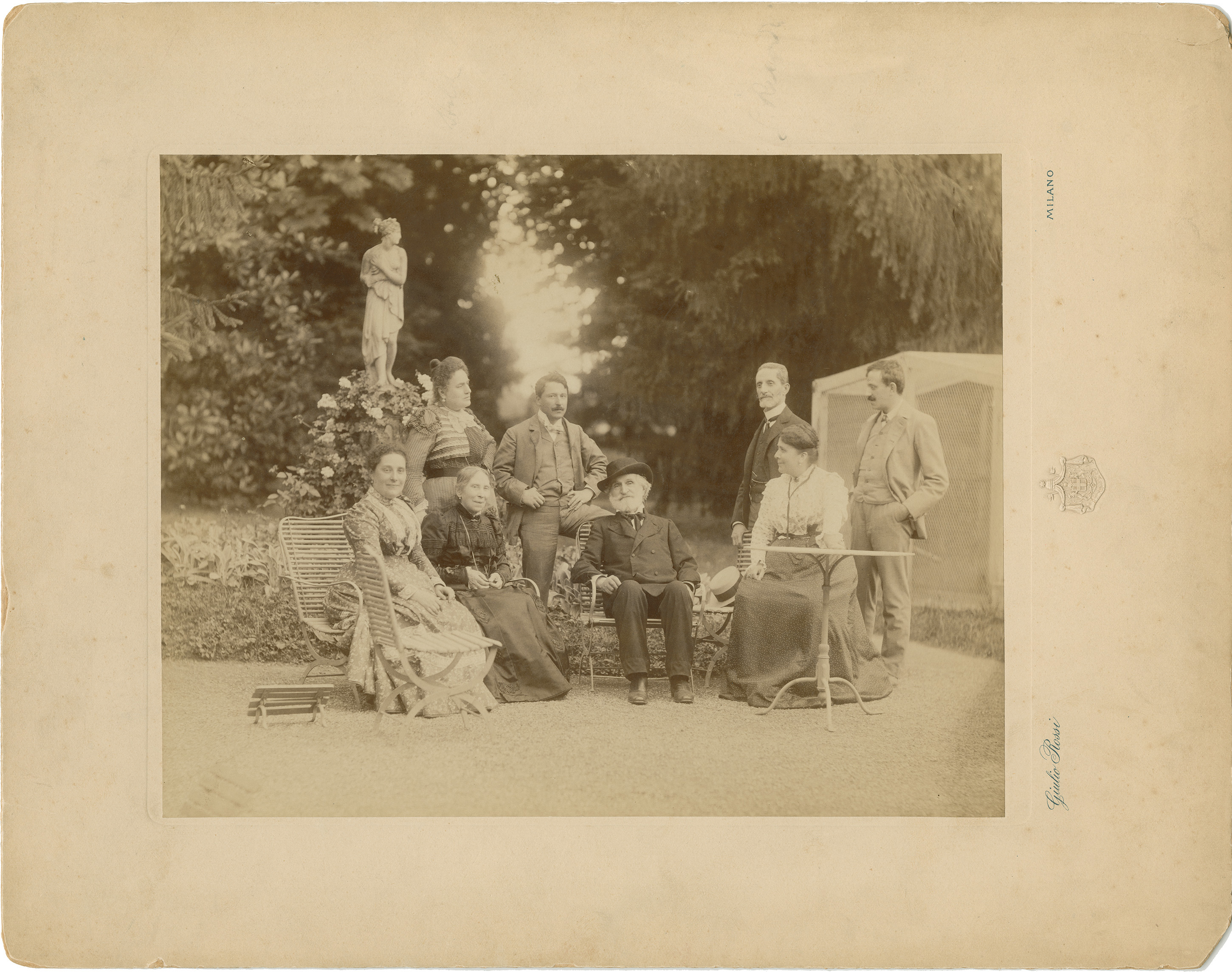 Portrait of Maria Carrara Verdi, Barberina Strepponi, Giuseppe Verdi, Giuditta Ricordi, Teresa Stolz, Umberto Campanari, Giulio Ricordi, Leopoldo Metlicovitz. Photo by Giulio Rossi, Sant'Agata, 1900.